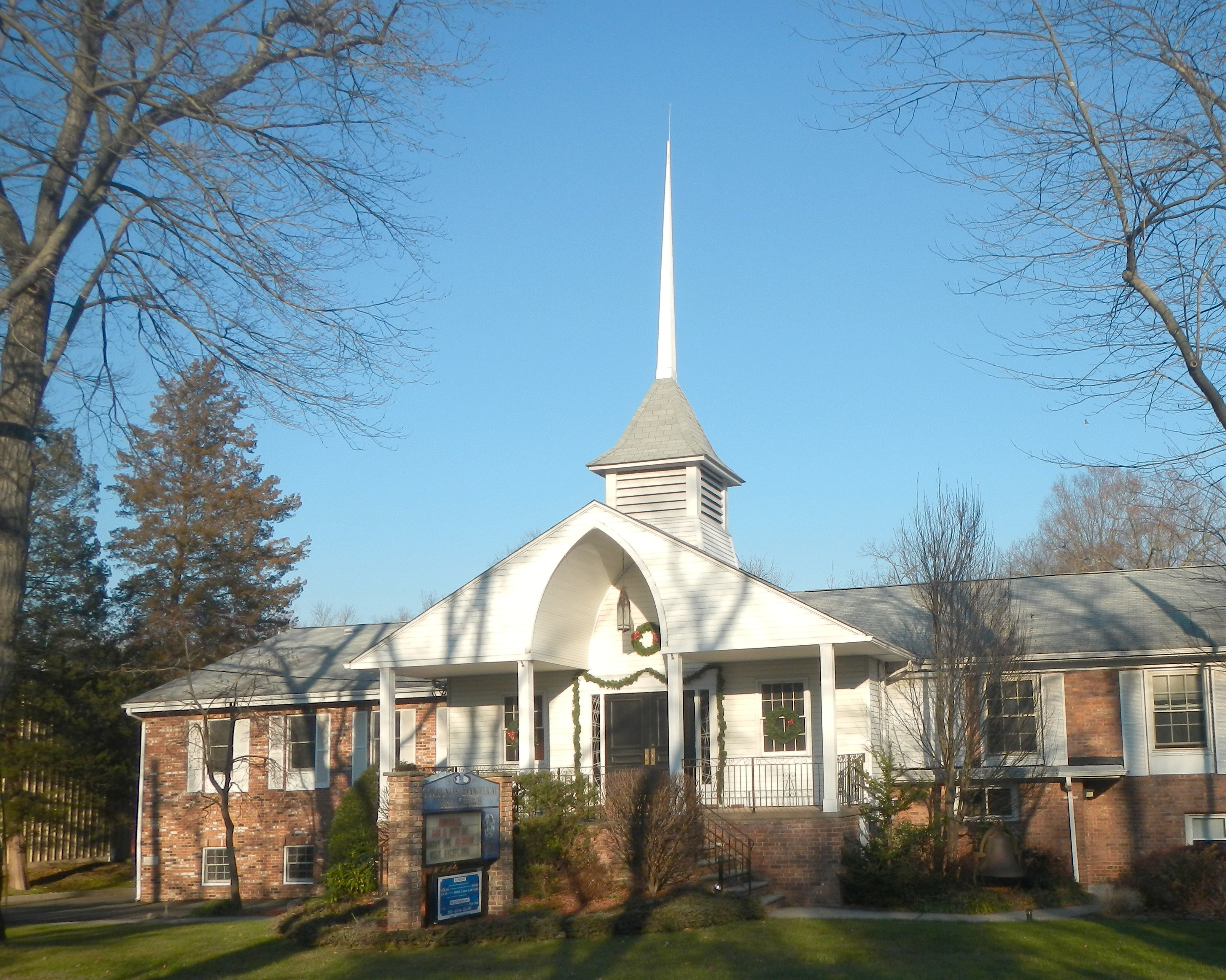 Looking northeast from New Street at church on a sunny late afternoon.